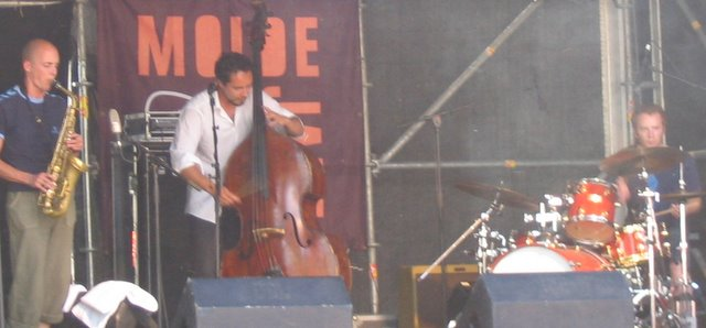 The norwegian Urban Connection, a jazztrio at Moldejazz 2003.